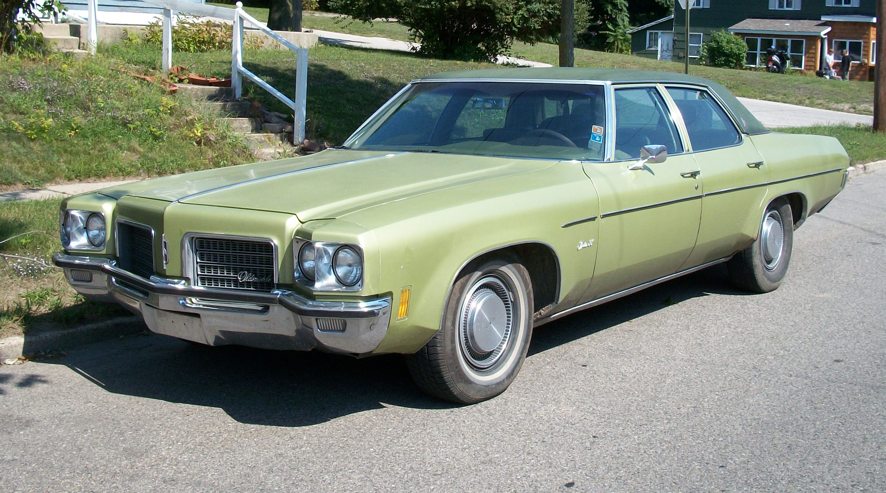 1971 Oldsmobile Delta 88 sedan photographed in Manistee, Michigan.